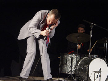 MC Einar performing in Aarhus Denmark 2010